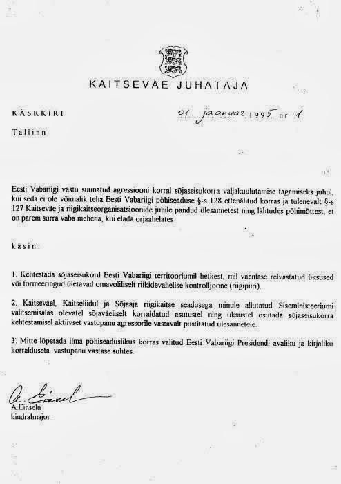 Historically notable decree of General Aleksander Einseln, Commander-in-Chief of the Estonian Defence Forces